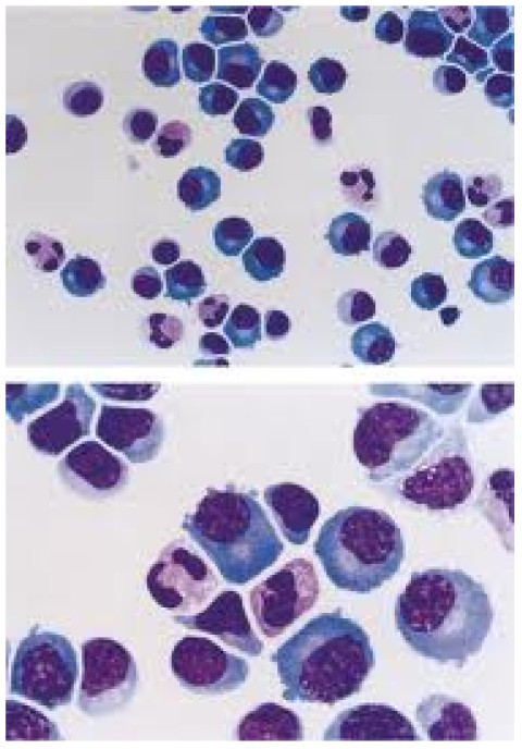 This study aimed to determine if the following clinical and laboratory features are associated with a diagnosis of definite TBM in patients with chronic meningitis syndrome: new-onset seizures; focal neurologic deficit; (+) PTB on chest X-ray; CSF lymphocytic pleocytosis (predominance of lymphocytes rather than neutrophils, which is more characteristic of a chronic infection such as TBM, as in Figure 1); decreased CSF glucose; increased CSF protein.